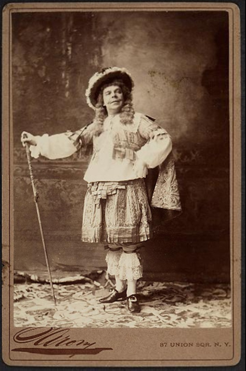 Benoit Constant Coquelin, 1841-1909 in Moliere's Les Precieuses Ridicules, full length, standing, facing slightly right